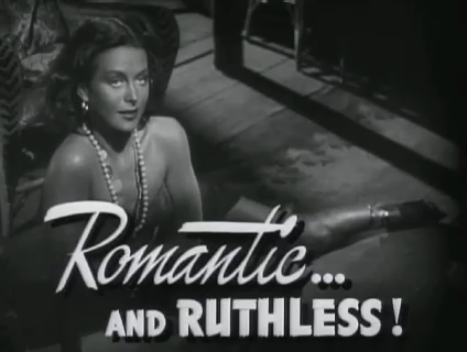 Hedy Lamarr in White Cargo, by Richard Thorpe (1942)